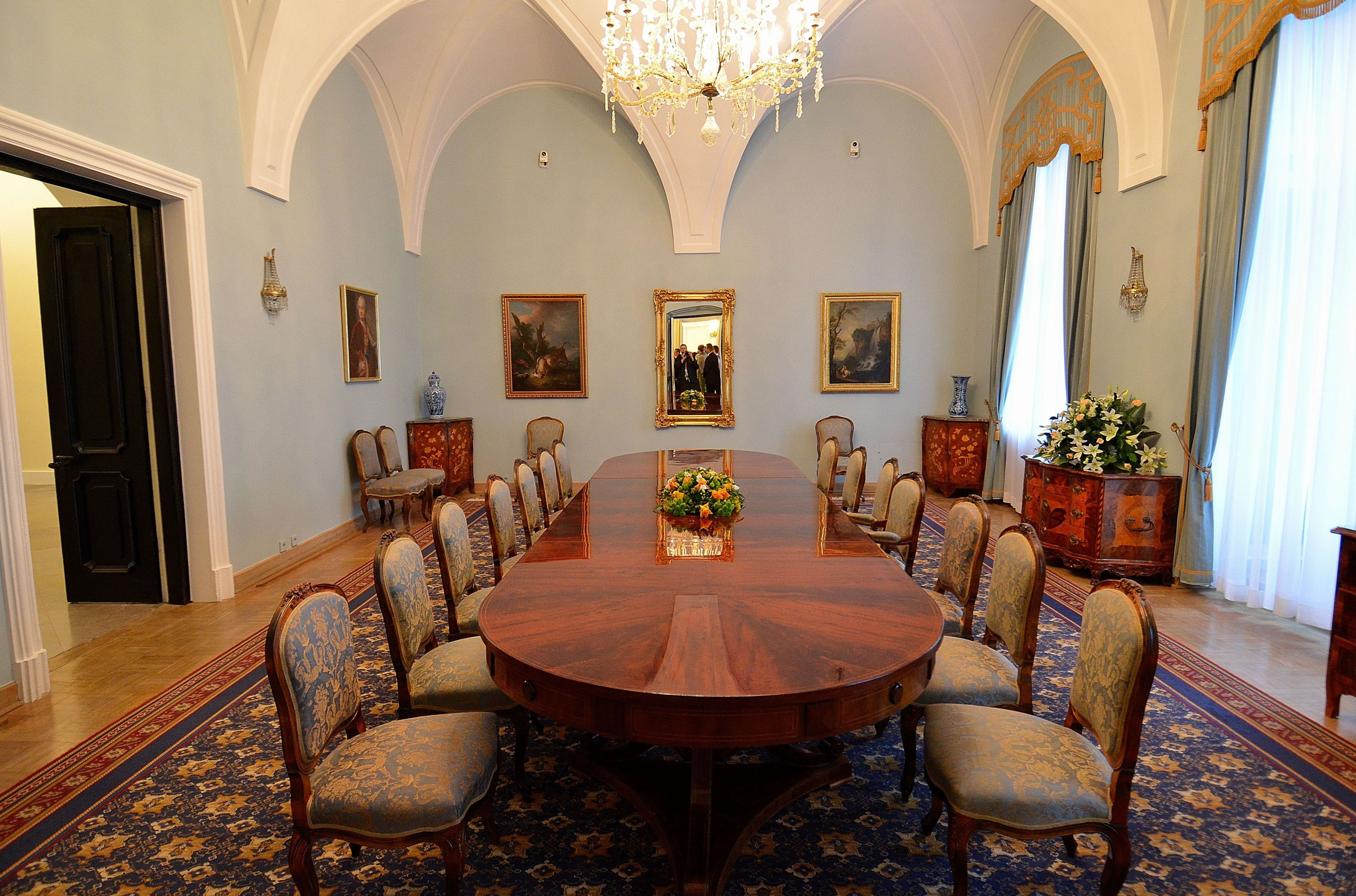 The Blue Hall in the Presidential Palace in Warsaw